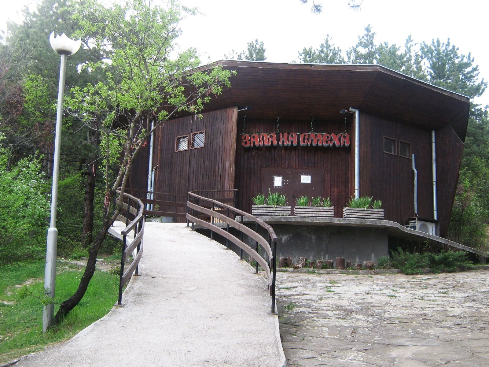 Hall of mirrors in the Ayazmo Park, Stara Zagora, Bulgaria.